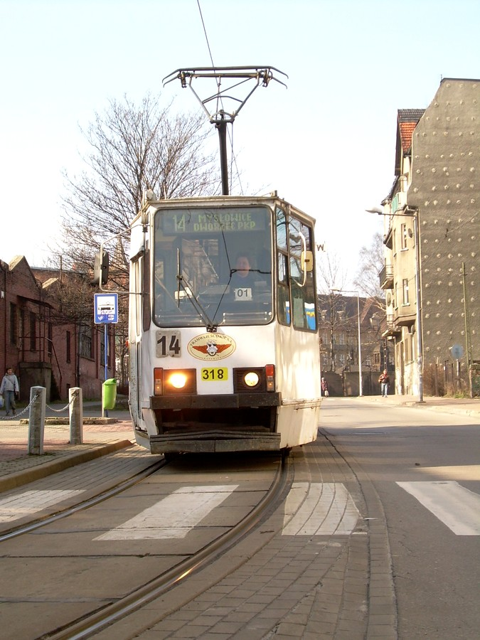 Konstal 105Na tram in Mysłowice, Poland. Built 1974.